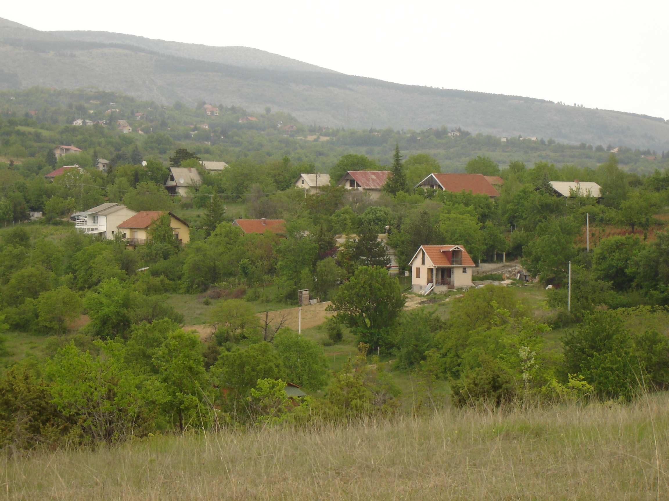 Village of Dolno Sonje on the slopes of mount Vodno, Republic of Macedonia.